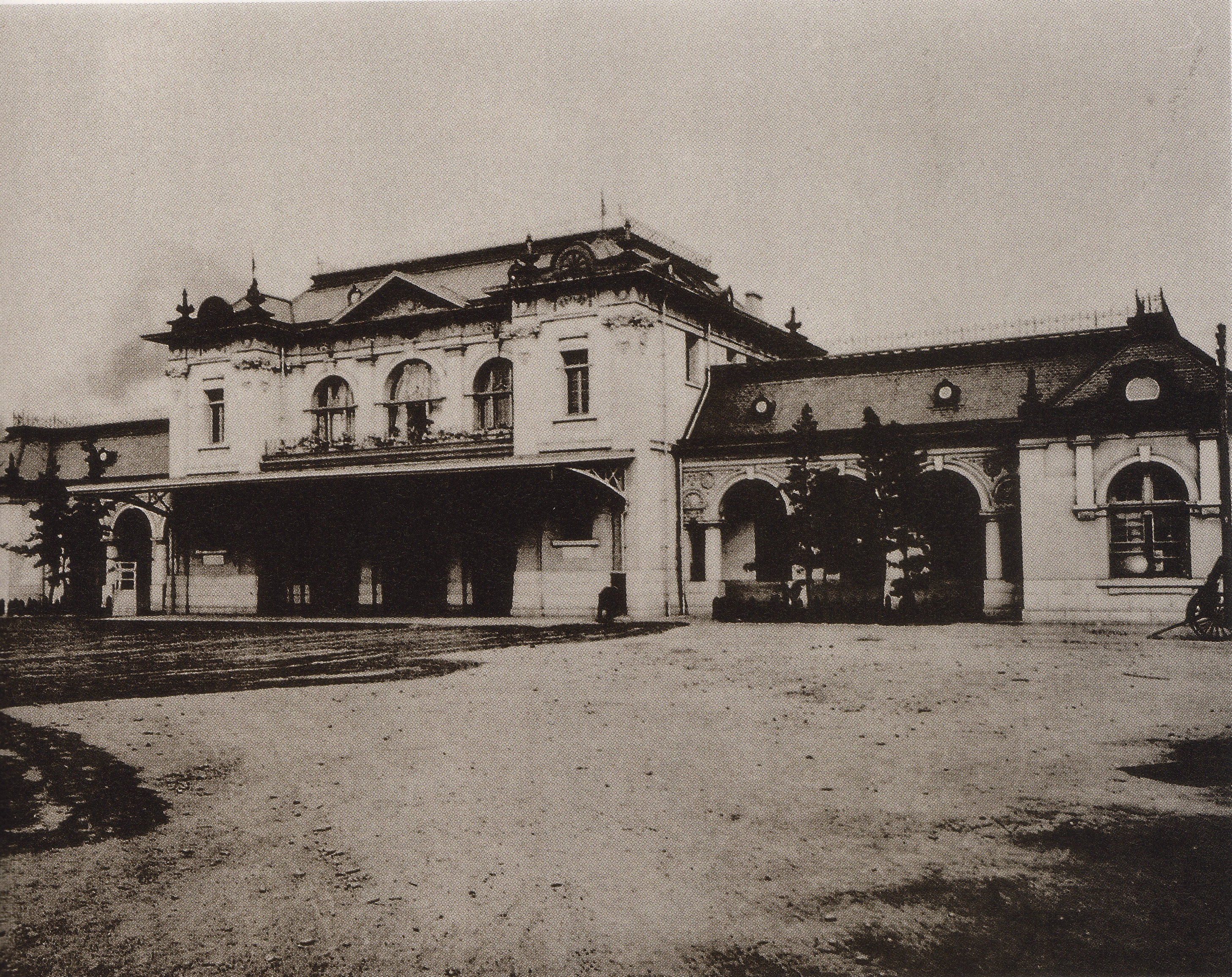 Hakata station main building that was completed in 1909. The building was destroyed in 1963.